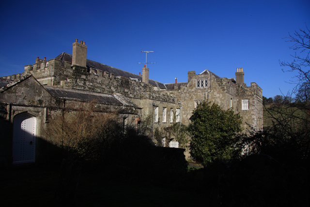 Compton Park House - Compton Chamberlayne This is about all one can see of Compton Park House, despite its close proximity to the churchyard from where this photo was taken. A C17 country house, it was acquired by Edward Penruddocke in circa 1600, and underwent alterations in the late C17. It was externally rebuilt in 1780 by Charles Penruddocke. The Penruddocke family were staunch Royalists during the English Civil War. Grade I Listed.